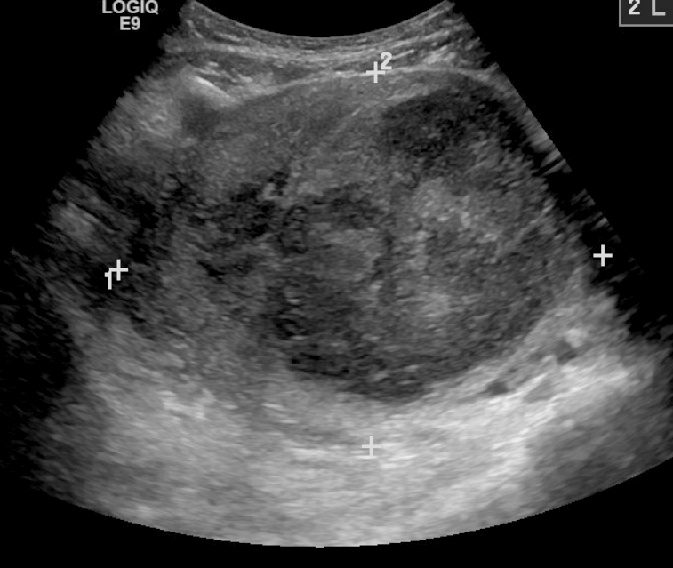 A very large (9cm) fibroid of the uterus which is causing pelvic congestion on US